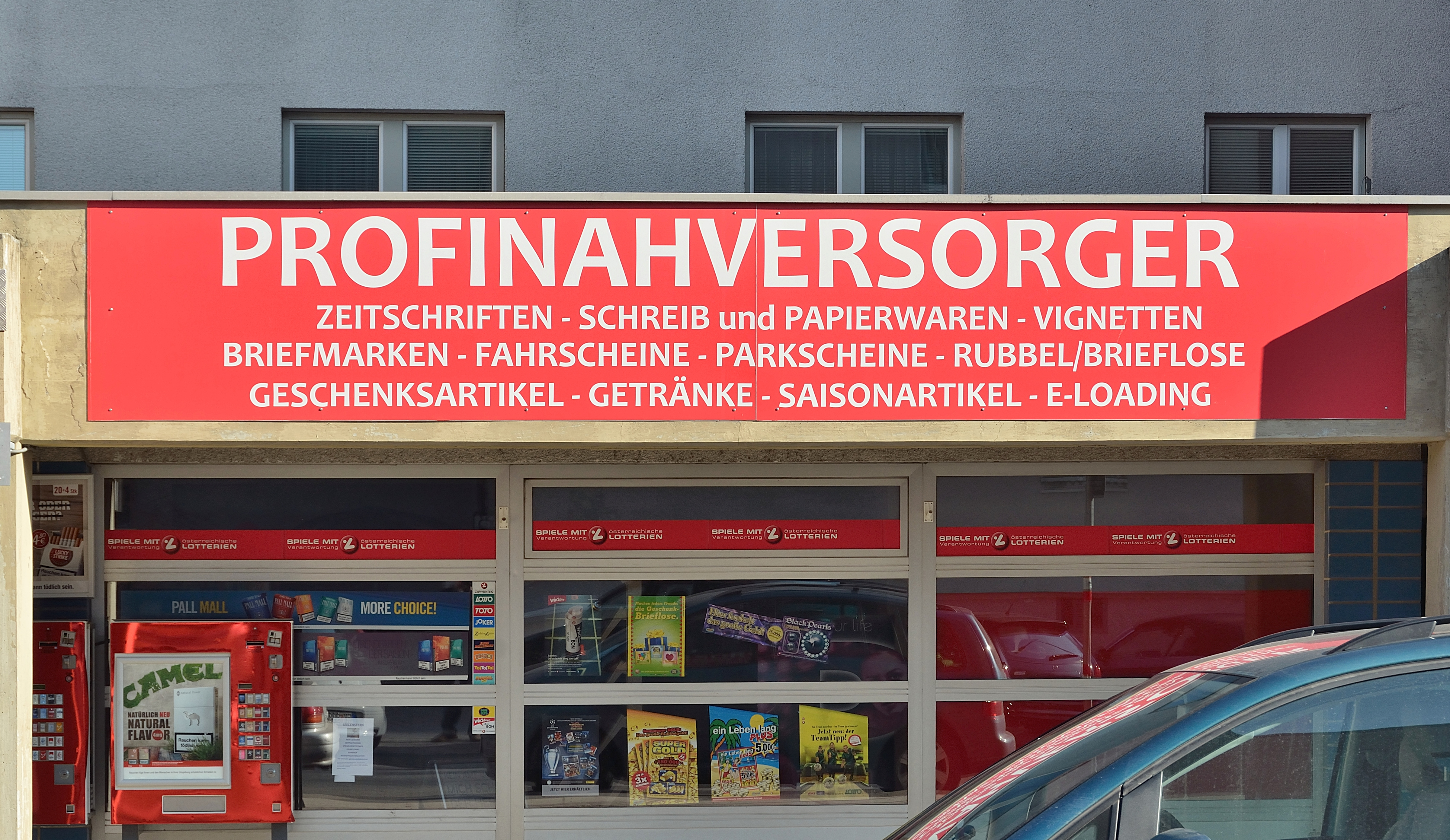 Tobacco shop and local supply at the public housing (Gemeindebau) at Mehlführergasse 26-28 in Liesing, Vienna. It sells no food!